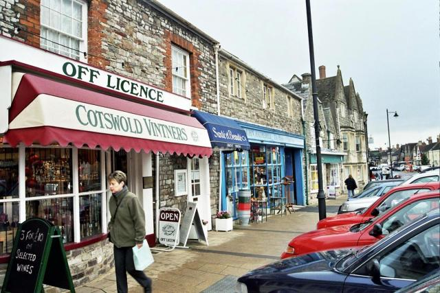 Chipping Sodbury high street.